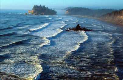 Olympic Coast National Marine Sanctuary, Washington, United States